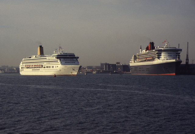 Aurora and Queen Mary 2